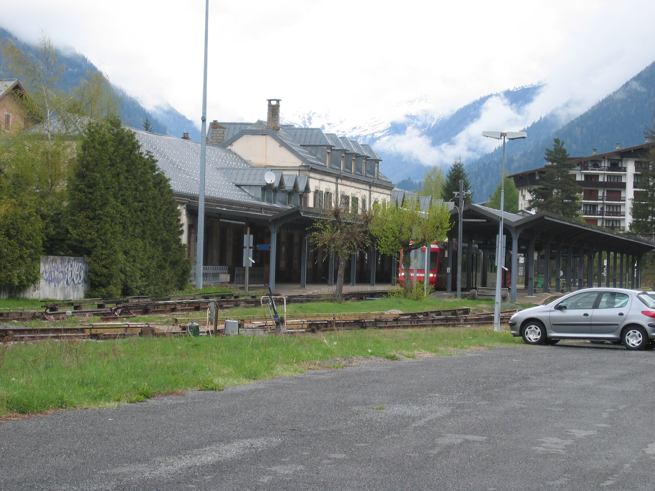 station in Chamonix